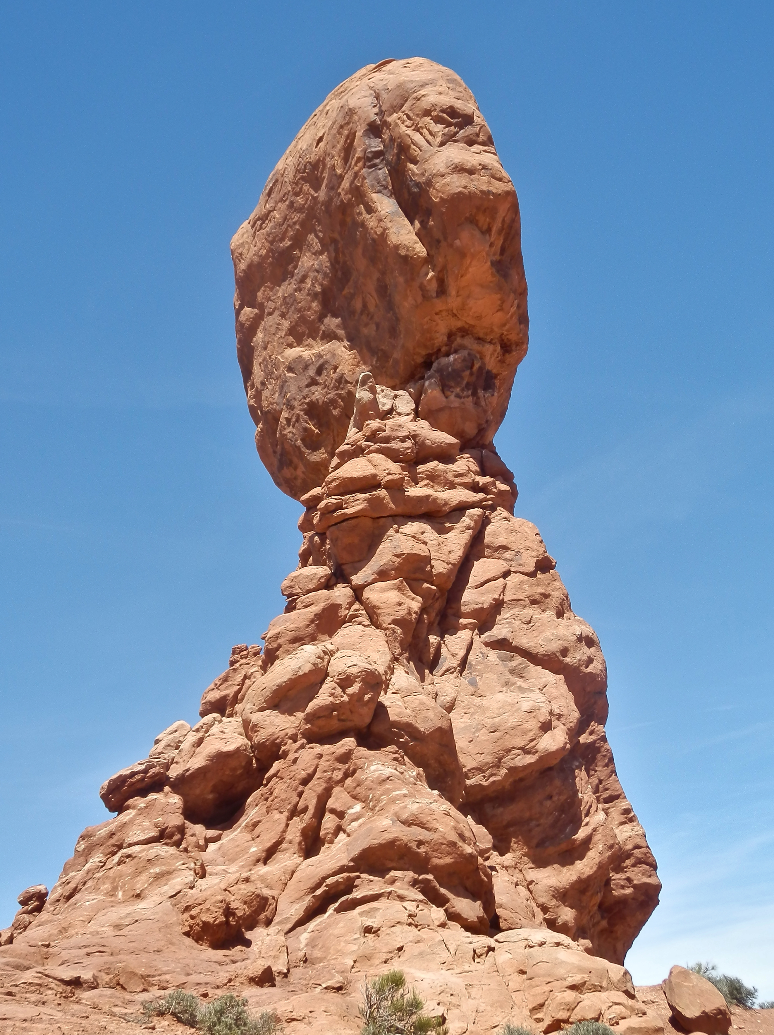 Arches Nationalpark Balanced Rock